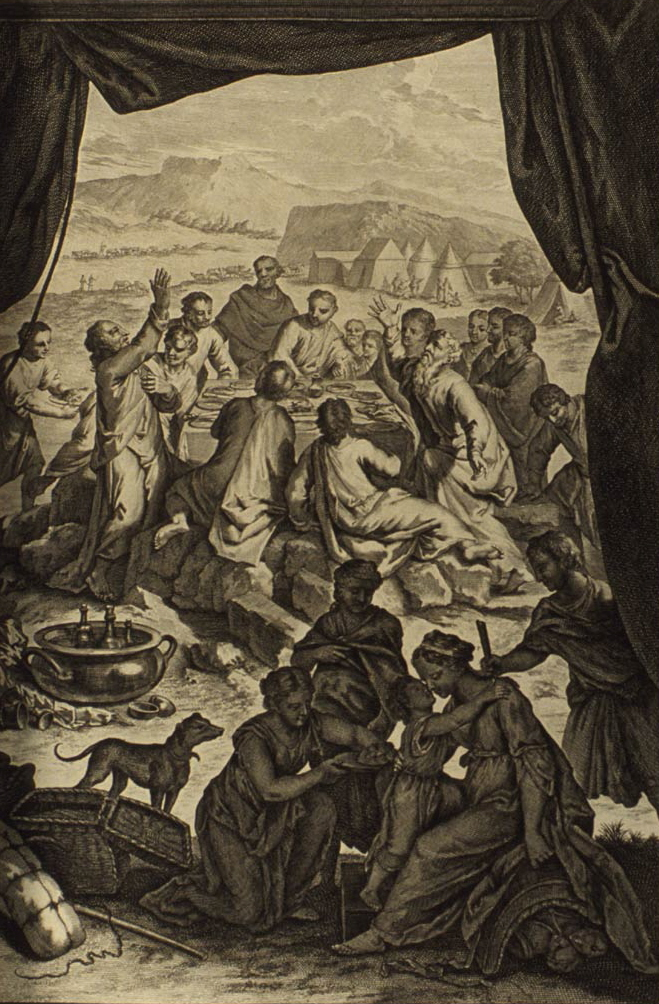 Laban & Jacob make a covenant together, as in Genesis 31:44-54: "Now therefore come thou, let us make a covenant, I and thou; and let it be fore a witness between me and thee. And Jacob took a stone, and set it up for a pillar. And Jacob said unto his brethren, Gather stones; and they took stones, and made an heap: and they did eat there upon the heap. And Laban called Jegarsahadutha: but Jacob called it Galeed. And Laban said, This heap is a witness between me and thee this day. Therefore was the name of it called Galeed; And Mizpah; for he said, The Lord watch between me and thee, when we are absent from another. If thou shalt afflict my daughters, or if thou shalt take other wives beside my daughters, no man is with us; see, God is witness betwixt me and thee. And Laban said to Jacob, Behold this heap, and behold this pillar, which I have cast betwixt me and thee; This heap be witness, and this pillar be witness, that I will not pas over this heap to thee, and that thou shalt not pass over this heap and this pillar unto me, for harm. The God of Abraham, and the God of Nahor, the God of their Father, judge betwixt us. And Jacob sware by the fear of his father Isaac. Then Jacob offered sacrifice upon the mount, and called his brethren to eat bread, and tarried all night in the mount."; illustration from the 1728 Figures de la Bible; illustrated by Gerard Hoet (1648-1733) and others, and published by P. de Hondt in The Hague; image courtesy Bizzell Bible Collection, University of Oklahoma Libraries